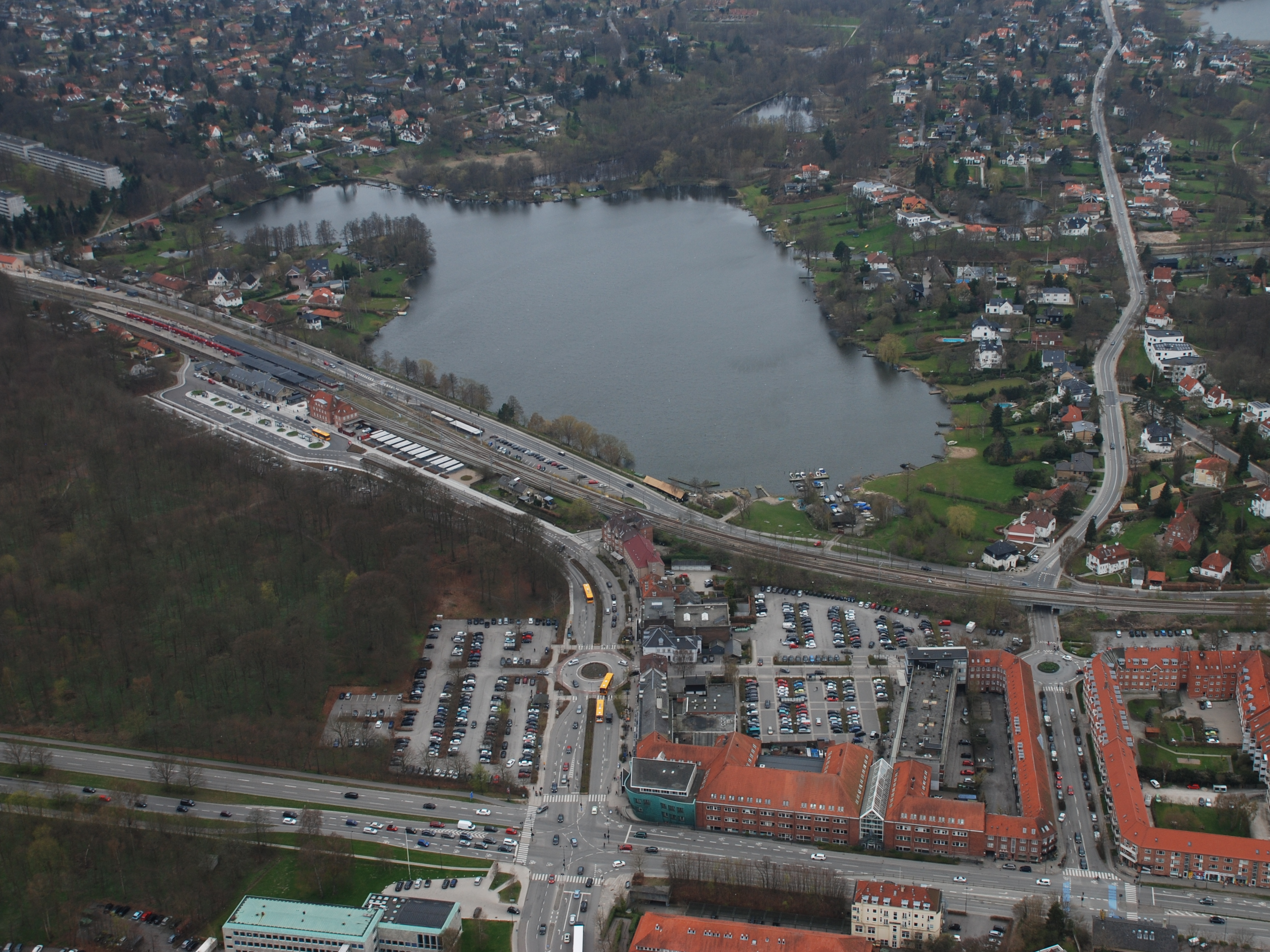 Aerial view of Vejlesø in Holte